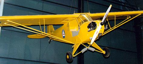 This Piper J-3 represents the contributions of the Civil Air Patrol (CAP) to the U.S. Air Force. The J-3 on display is further identified as a J-3C-65-8 indicating it is a J-3 aircraft powered by a Model 8 Continental A-65 engine of 65 horsepower. It is painted in the widely known Piper "Cub yellow". The aircraft on display was donated in 1971 by the Greene County Composite Squadron, Civil Air Patrol, of Xenia, Ohio.